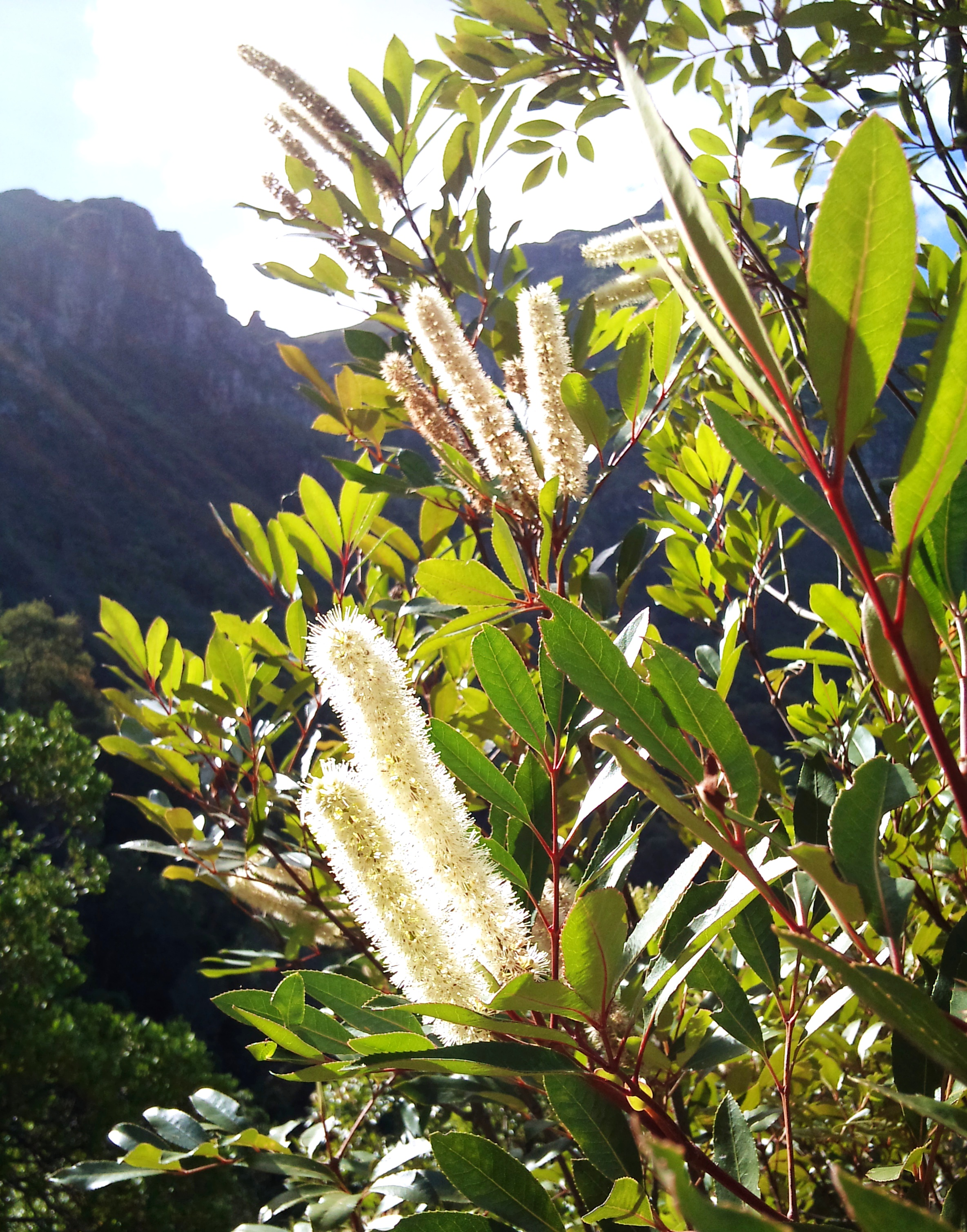 Cunonia Capensis. Rooiels tree. Newlands forest on the slopes of Devils Peak. Table Mountain.